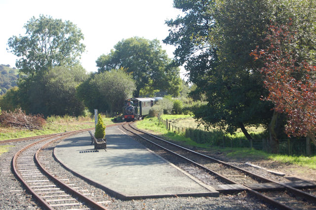 Countess at Cyfronydd Cyfronydd station with Countess approaching